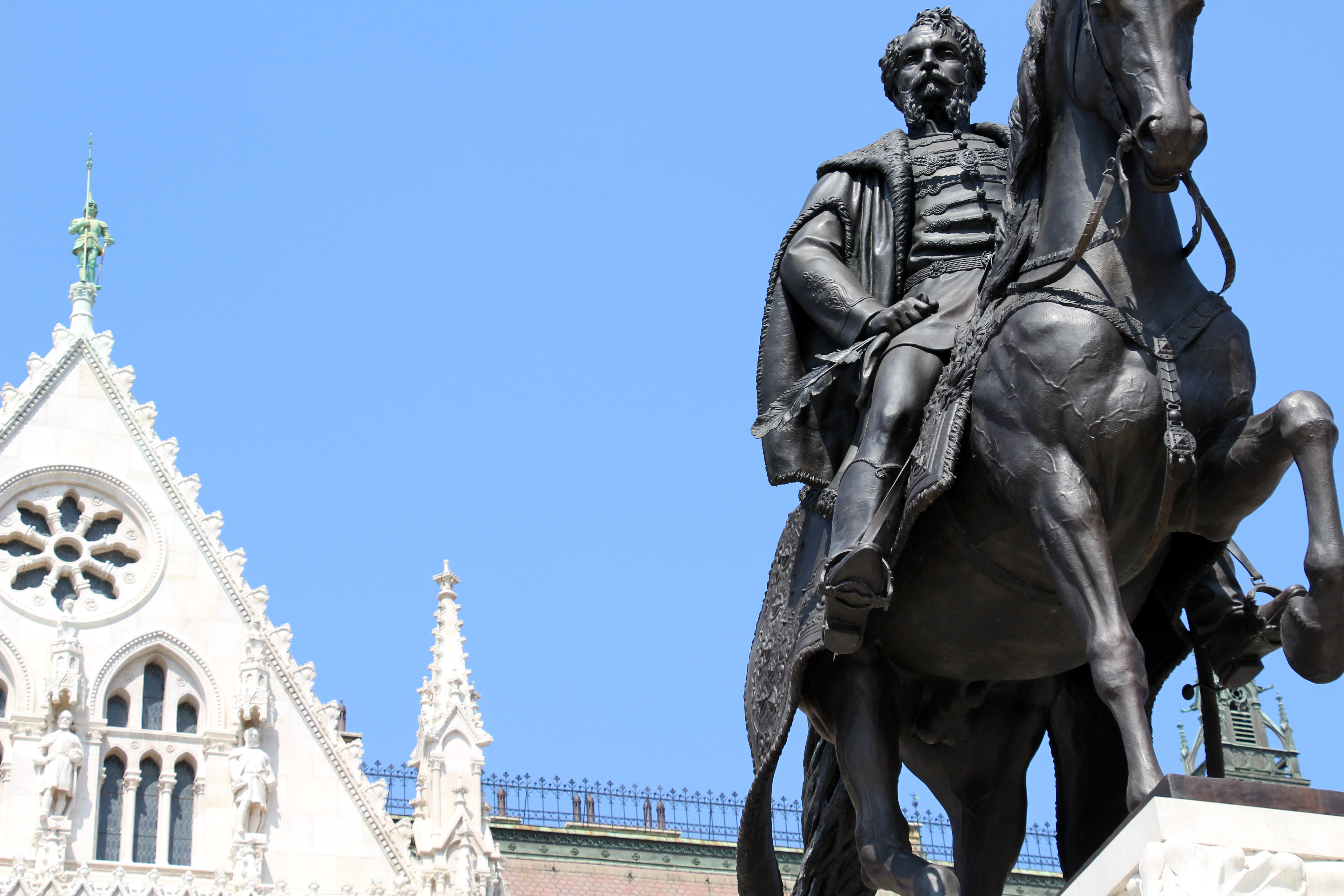 Lipótváros - Kossuth Lajos tér Statue of Count Gyula Andrássy, which was removed in 1945 by the Parliament, was used for its bronze material in the Statue of Stalin which had fallen down in 1956. Recent replica of the former monument.